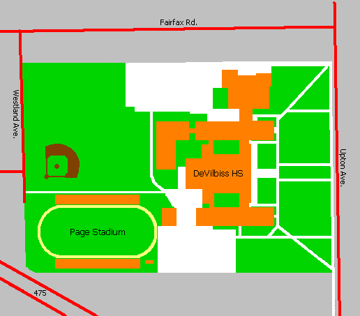 Aerial map showing the DeVilbiss campus.